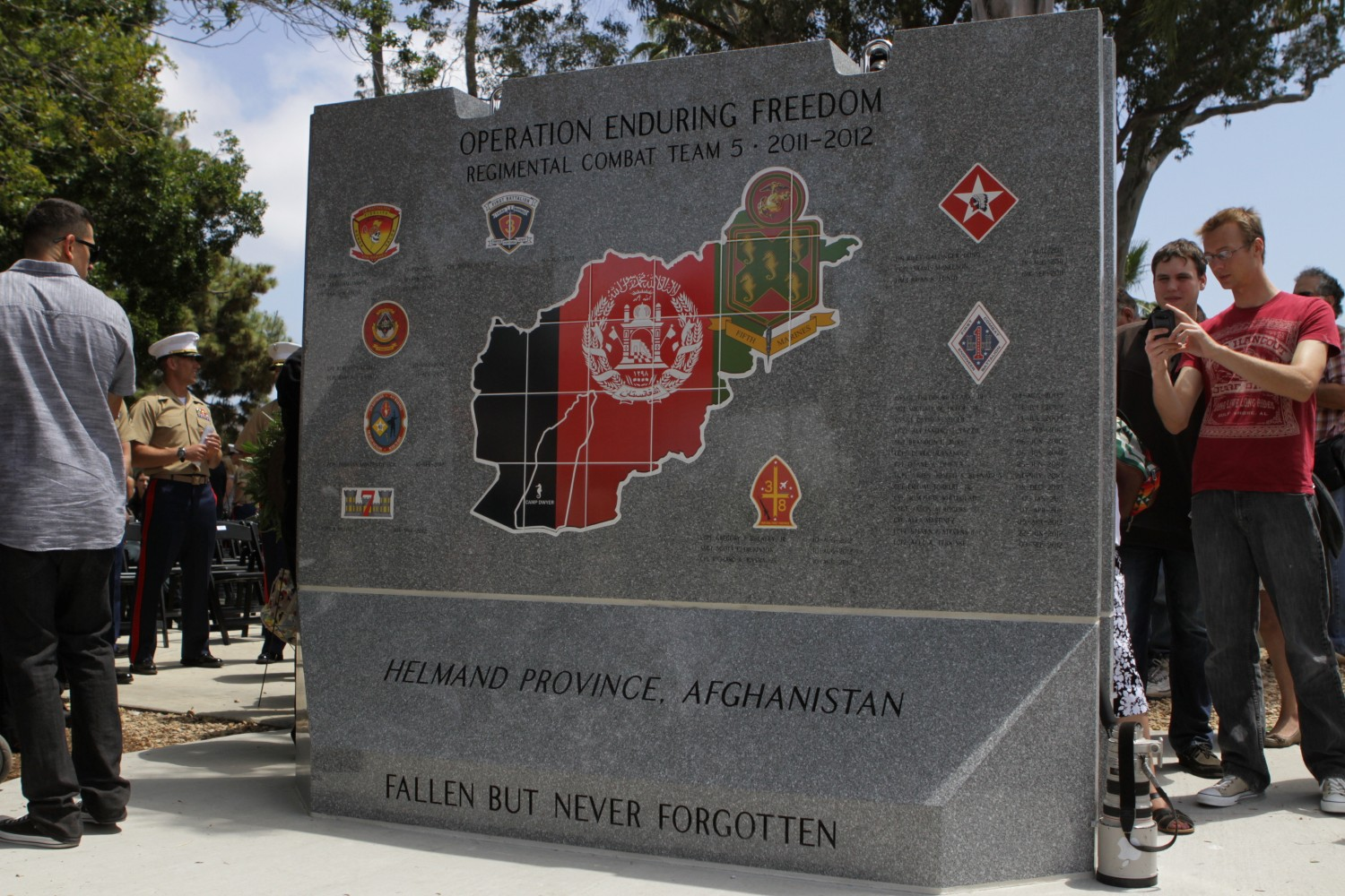 The memorial honors Marines and sailors who served with 5th Marines or under Regimental Combat Team 5 who gave the ultimate sacrifice during combat operations in Afghanistan.